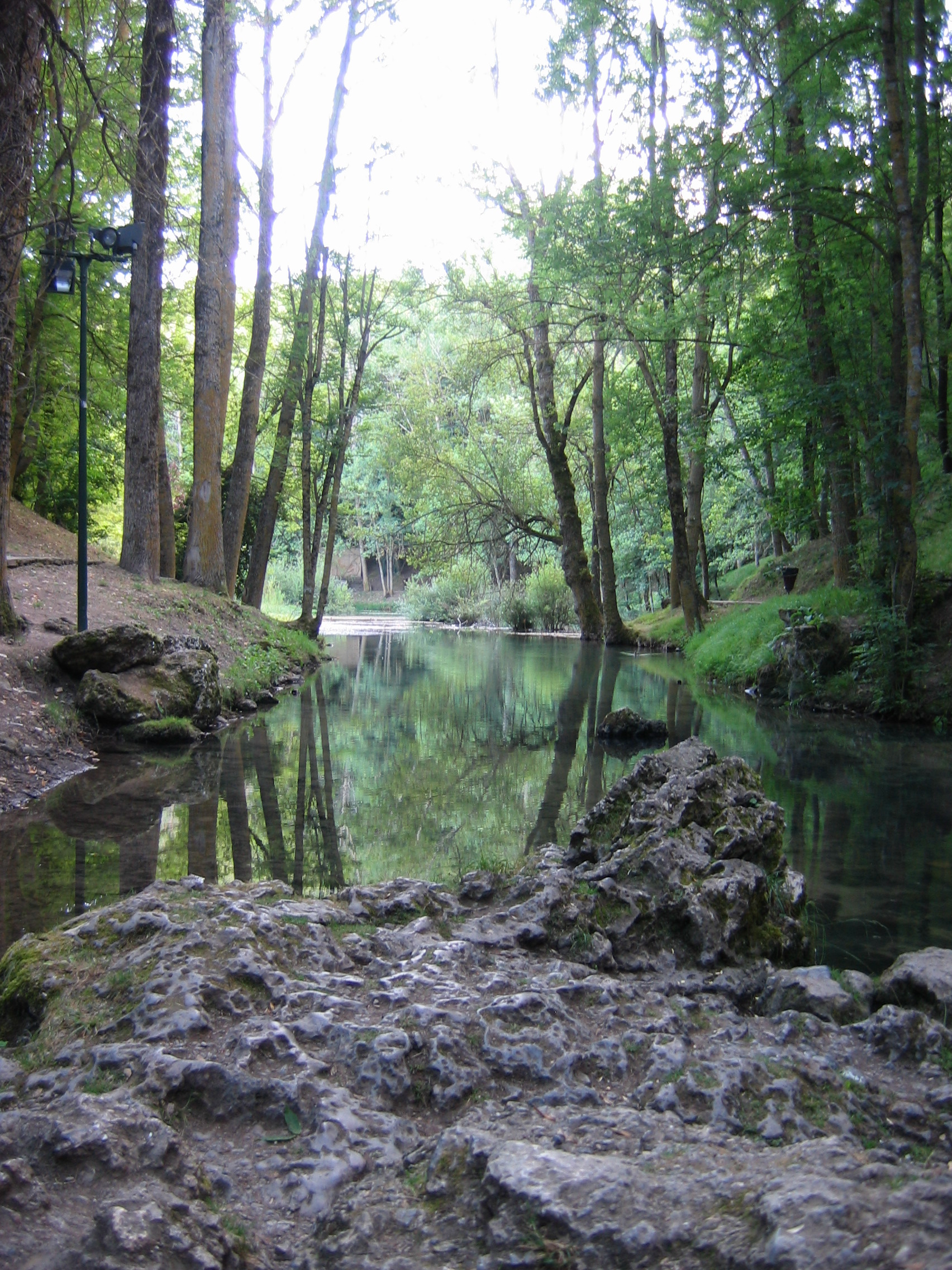 Ebre's born, in Fontibre.